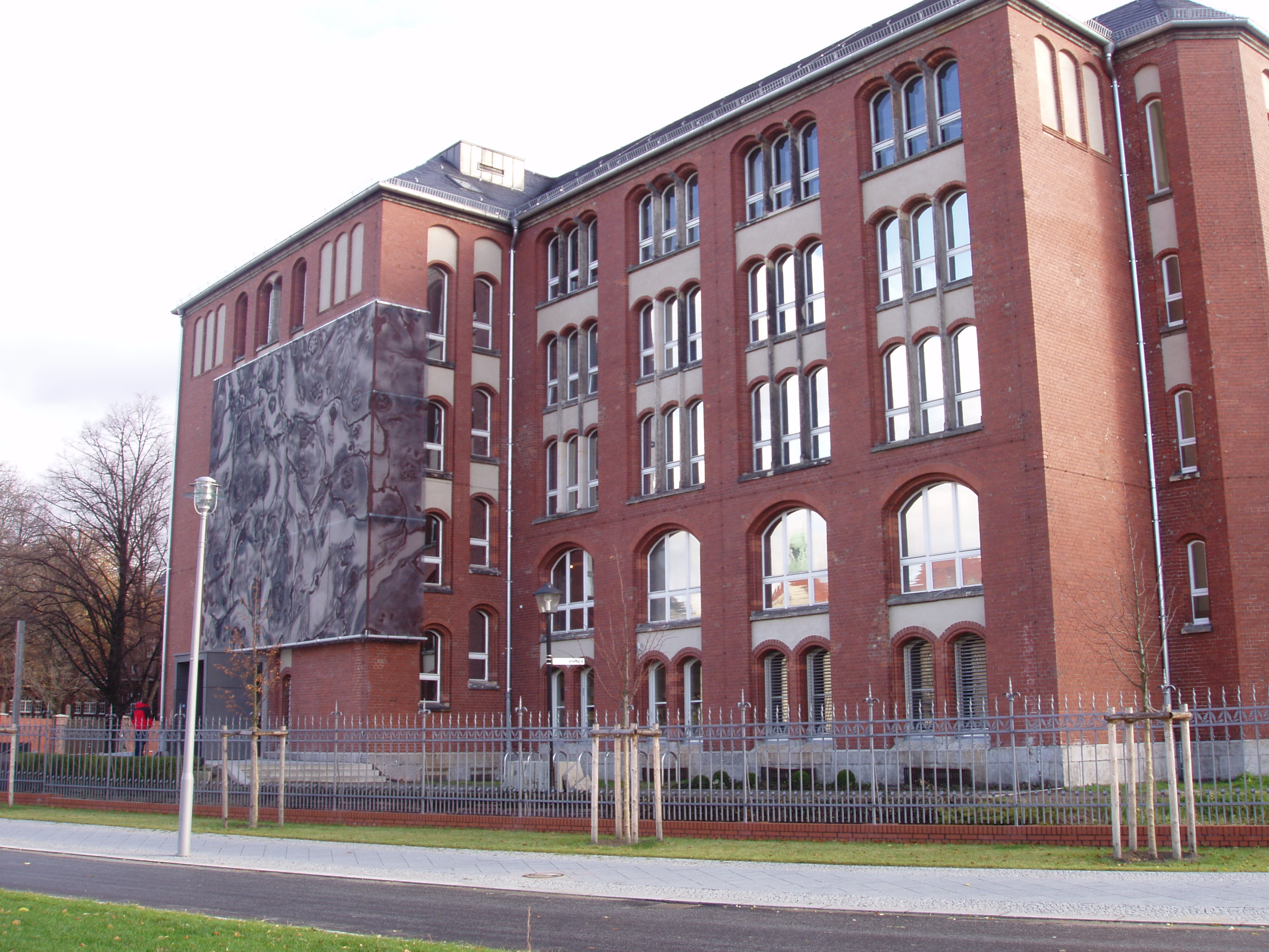 Berlin Museum of Medical History